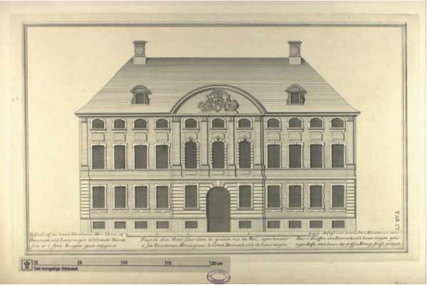 Jernmagasinet at Store Kongensgade 68 in Copenhagen on an illustration from Hafnia hodierna (1748)